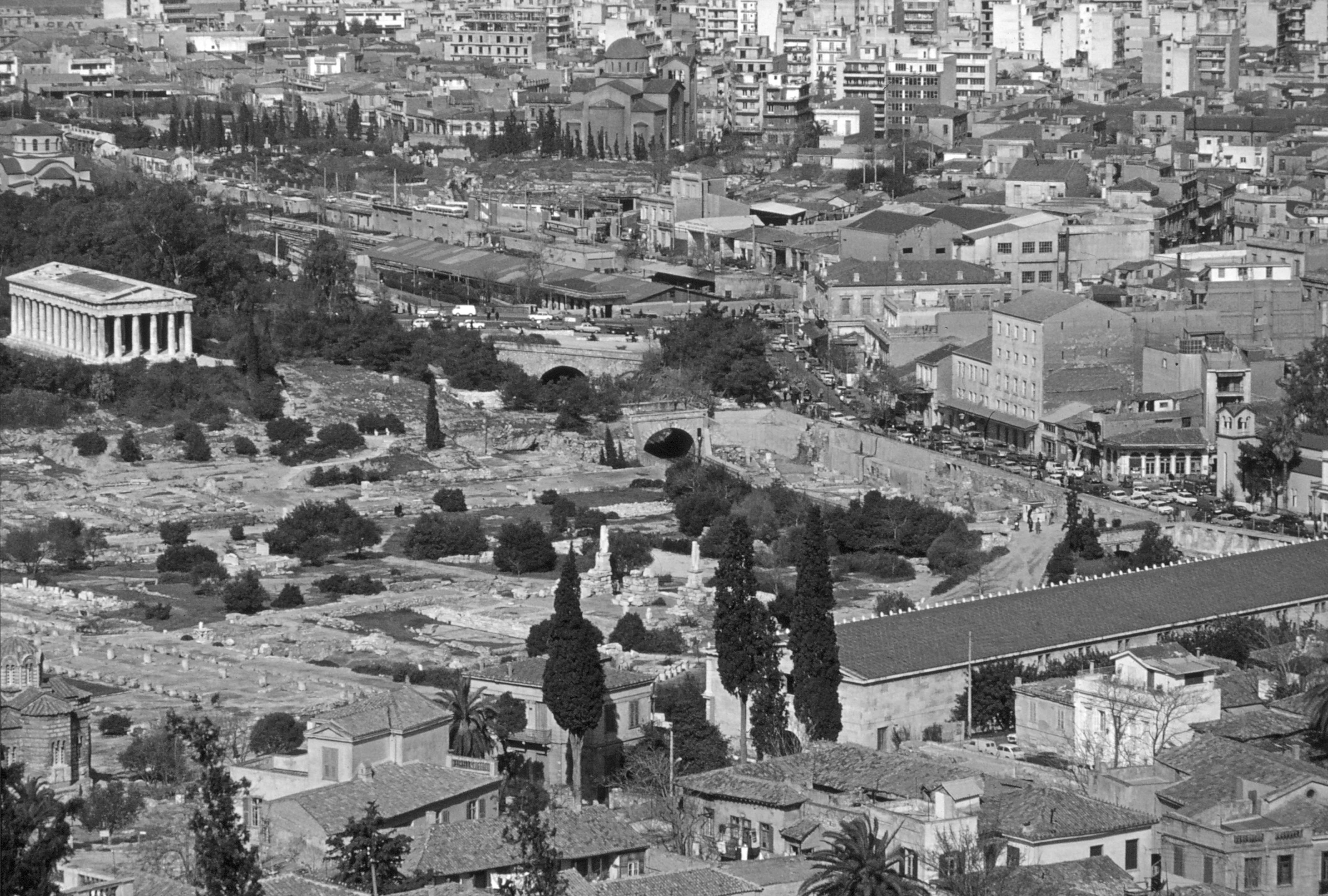 View of the ancient agora of Athens, Greece. Temple of Hephaestus visible in the upper left corner and rebuilt Stoa of Attalos in the foreground.